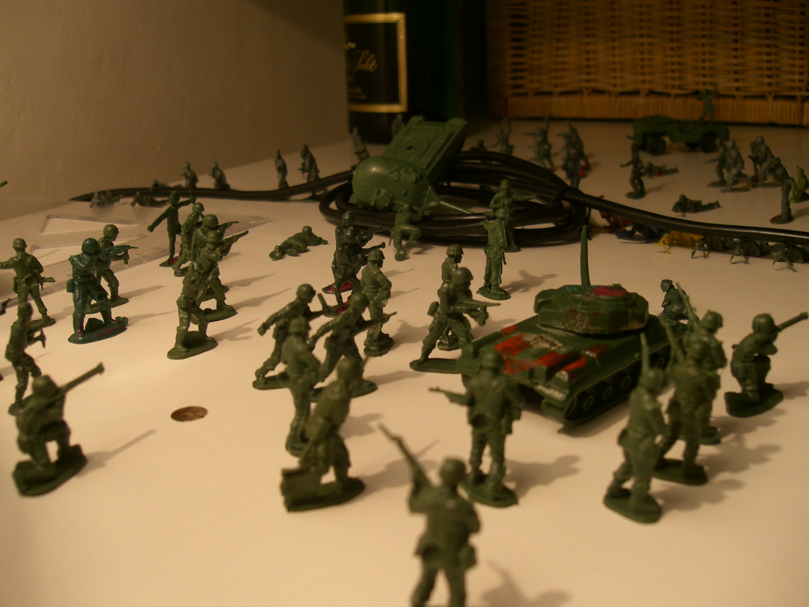 Plastic soldiers - battlefield. Left site is US Army ready for attack, right part is Wermacht.